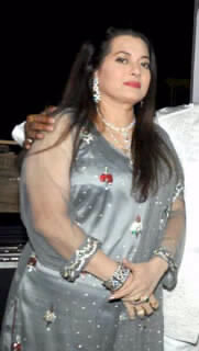 Vijayta Pandit at 'Global Sounds Of Peace' live concert